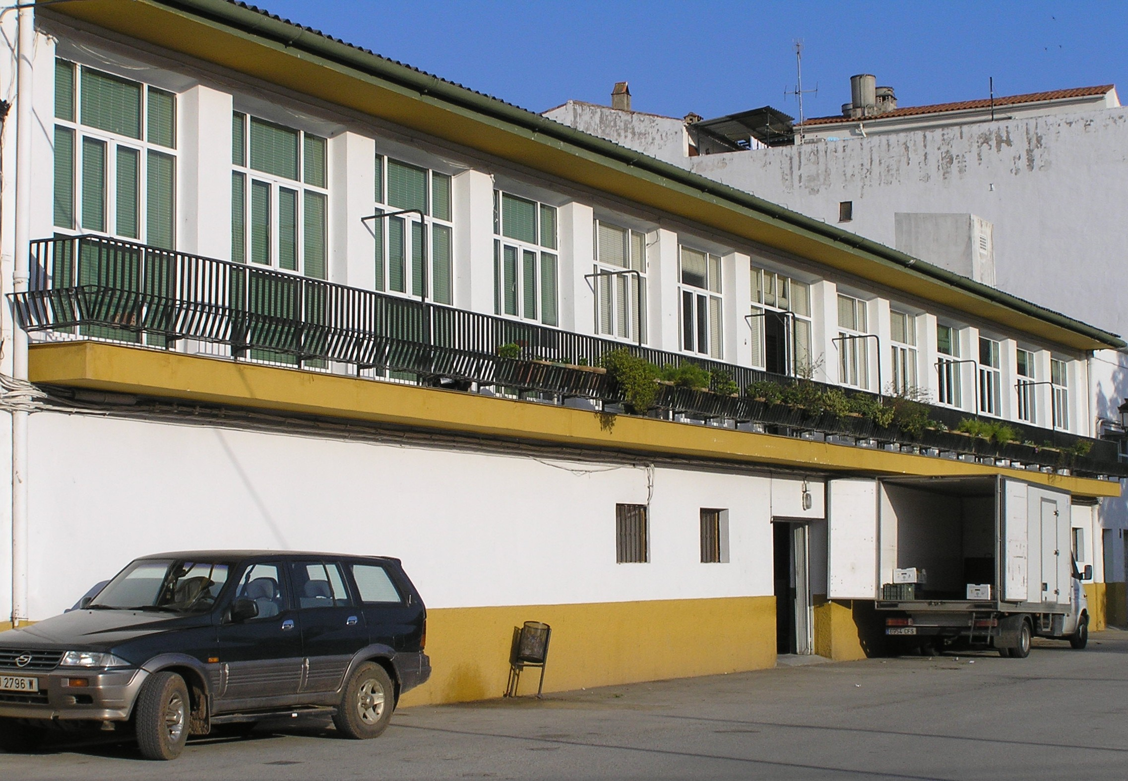 Mercado municipal de Abastos